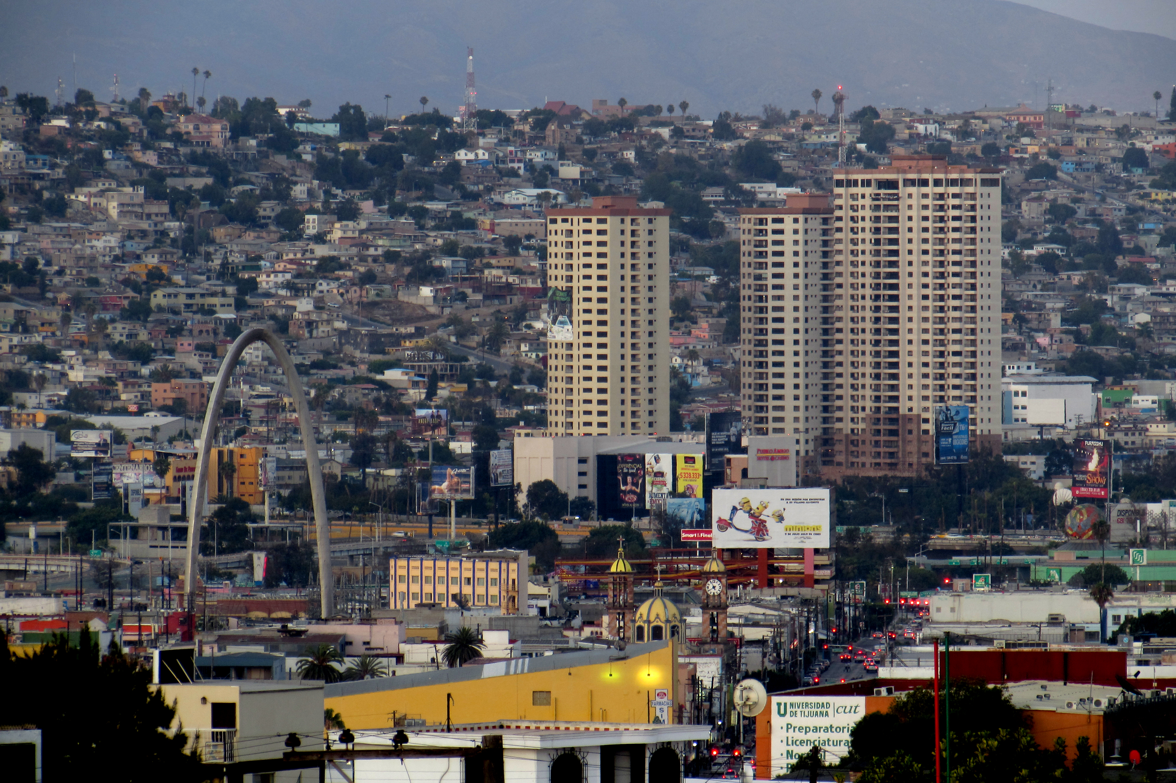 Tj's downtown